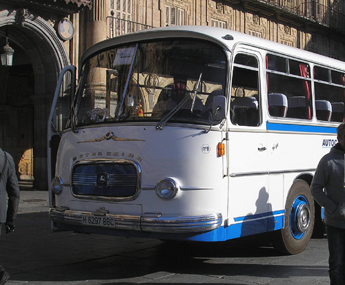 Setra Seida model S14 bus front